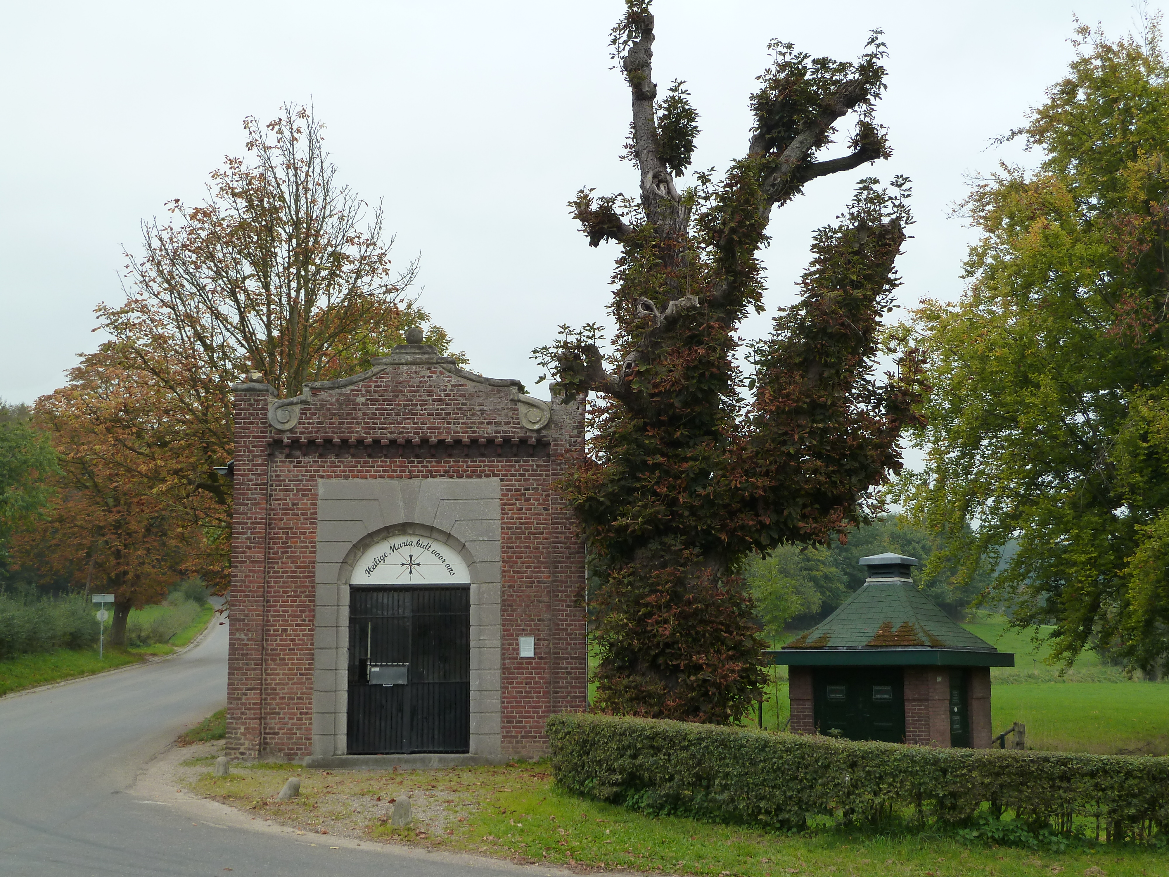 Mariakapel, Slenaken, Limburg, the Netherlands